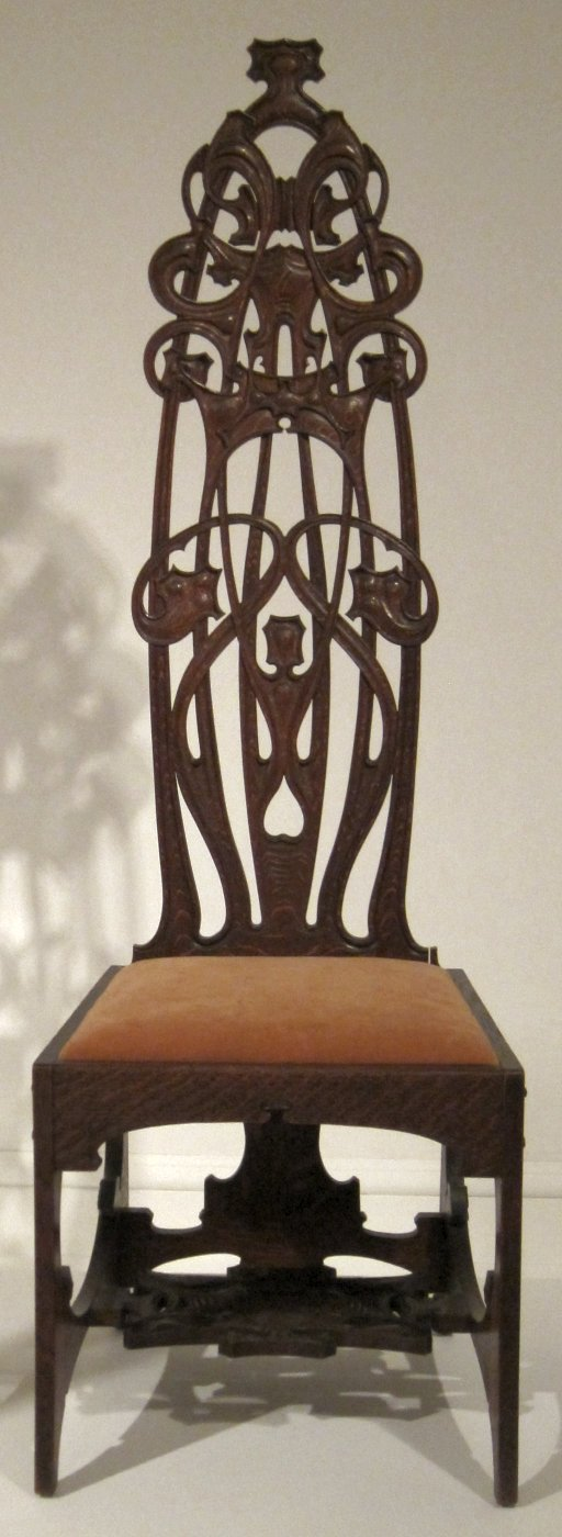 Oak chair made by Charles Rohlfs, 1898-99 Princeton University Art Museum Native namePrinceton University Art MuseumParent institutionPrinceton UniversityLocationPrinceton, New Jersey, USACoordinates40° 20′ 49.92″ N, 74° 39′ 28.08″ W Established1882 Web pageartmuseumAuthority control : Q2603905 VIAF: 129611680 ISNI: 0000 0004 0576 9353 LCCN: n79129214 WorldCat institution QS:P195,Q2603905